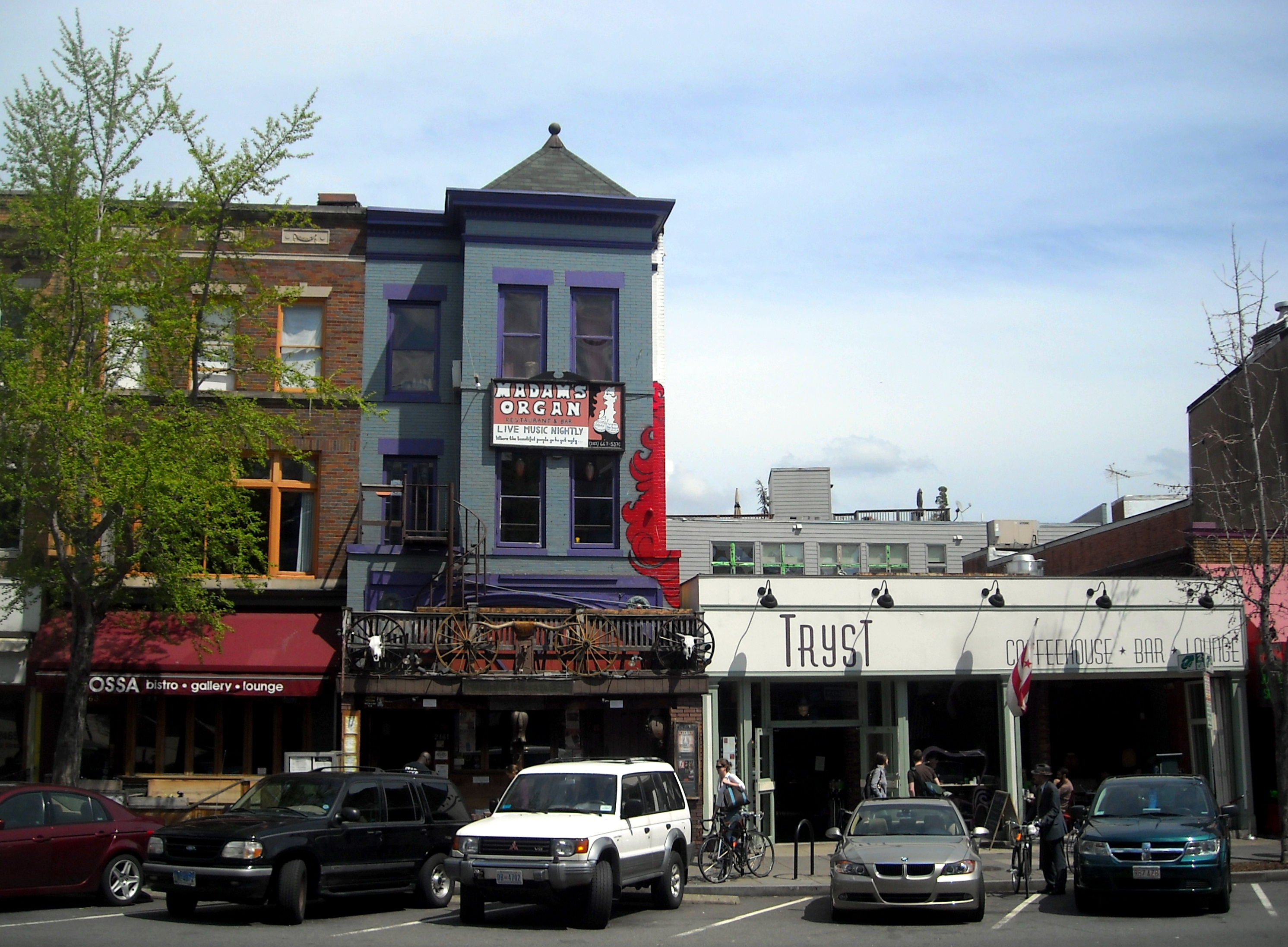 Bossa, Madam's Organ Blues Bar, and Tryst, located at 2459–2463 18th Street, N.W., in the Adams Morgan neighborhood of Washington, D.C. Built in 1907 for commercial use (remodeled in 1925), 2459 18th Street was designed in the Classical Revival style, but no longer retains the style's elements. Built in 1905 as a private residence (remodeled in 1925), 2461 18th Street was designed by Ferd T. Schneider in the Queen Anne style. Built in 1905 (remodeled in 1935) as a private residence, 2463 18th Street was also designed by Schneider, but is an example of Colonial Revival architecture. Converted to commercial use in the 1920s, the businesses are contributing properties to the Washington Heights Historic District, listed on the National Register of Historic Places in 2006.